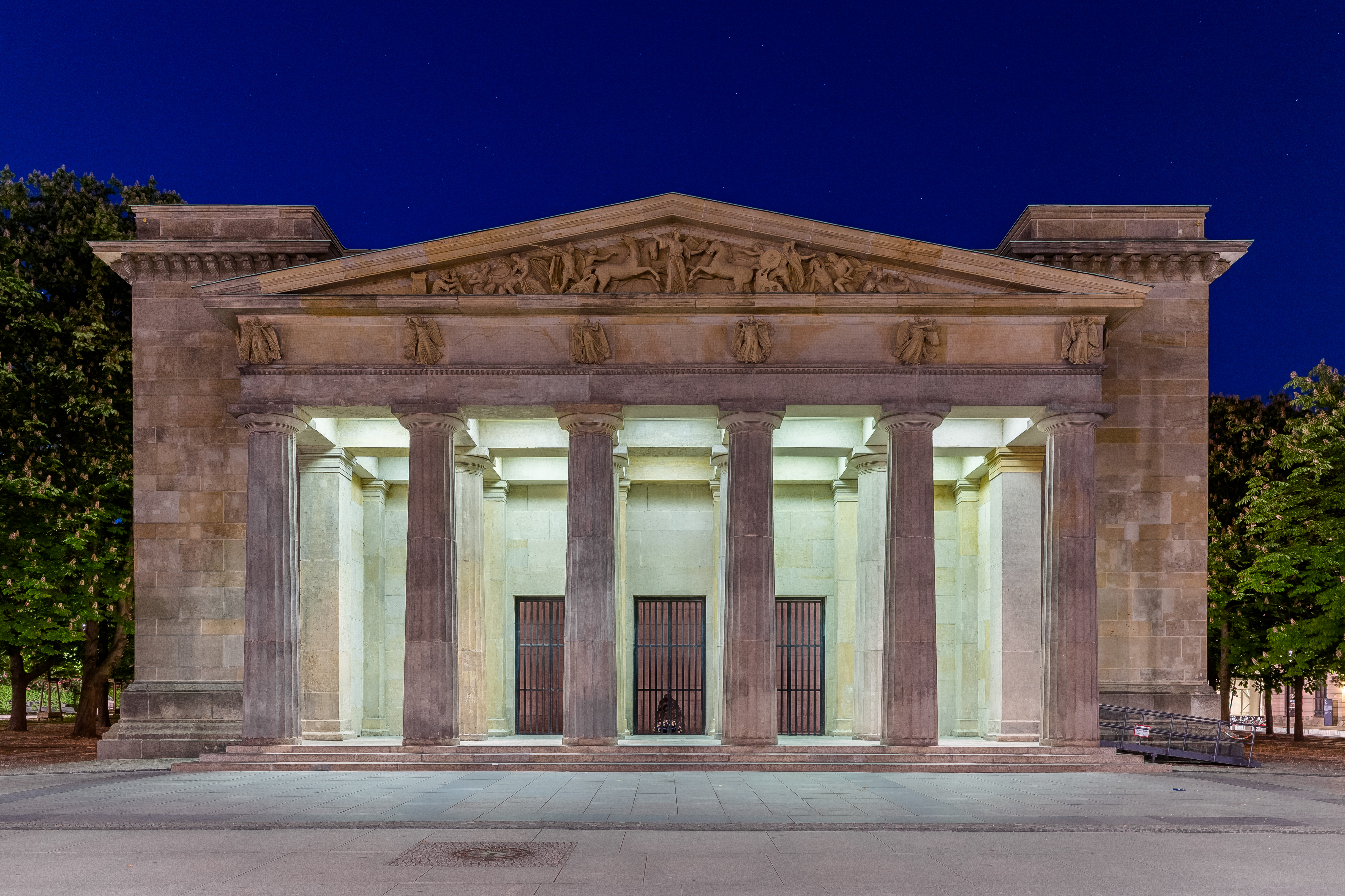 Neue Wache (New Guardhouse) in Berlin-Mitte at night. It was built from 1816 and 1818 according to plans of Karl Friedrich Schinkel. It is one of the main works of German classicism.